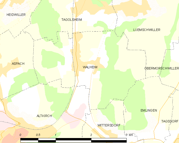 Map of French municipality